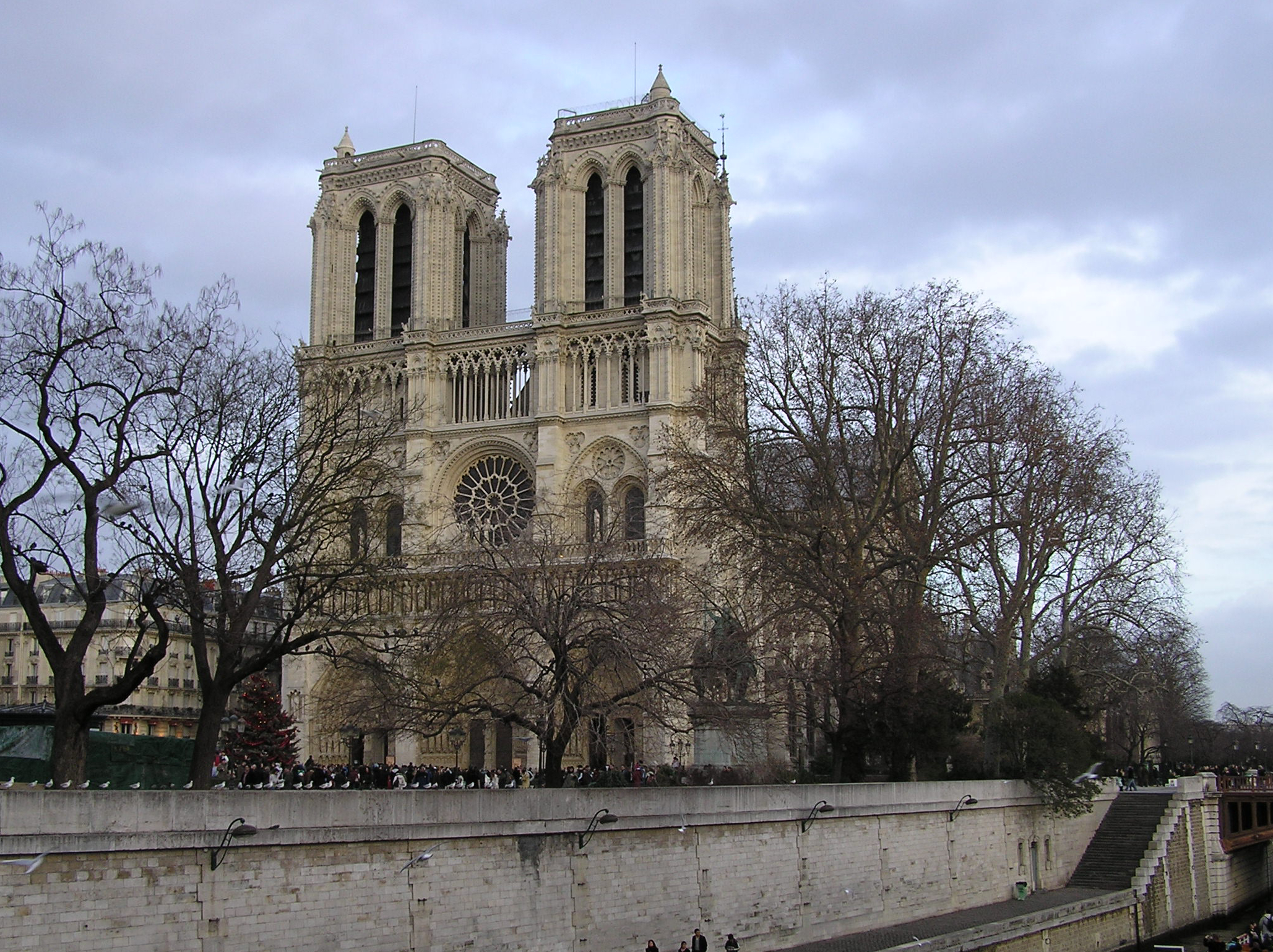 Paris in winter. Notre-Dame de Paris seen from the rive gauche.